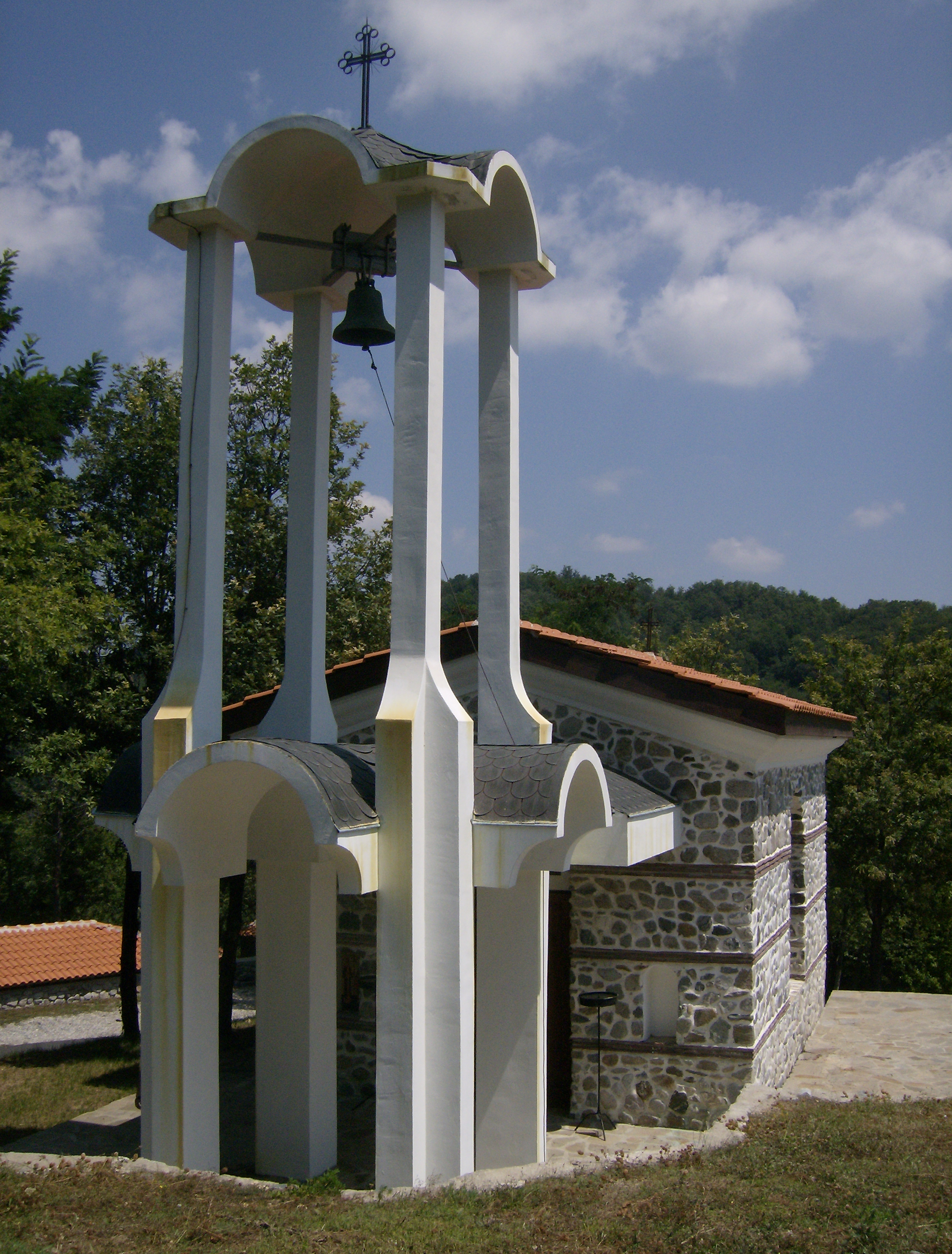 Zlatograd Border Check Point